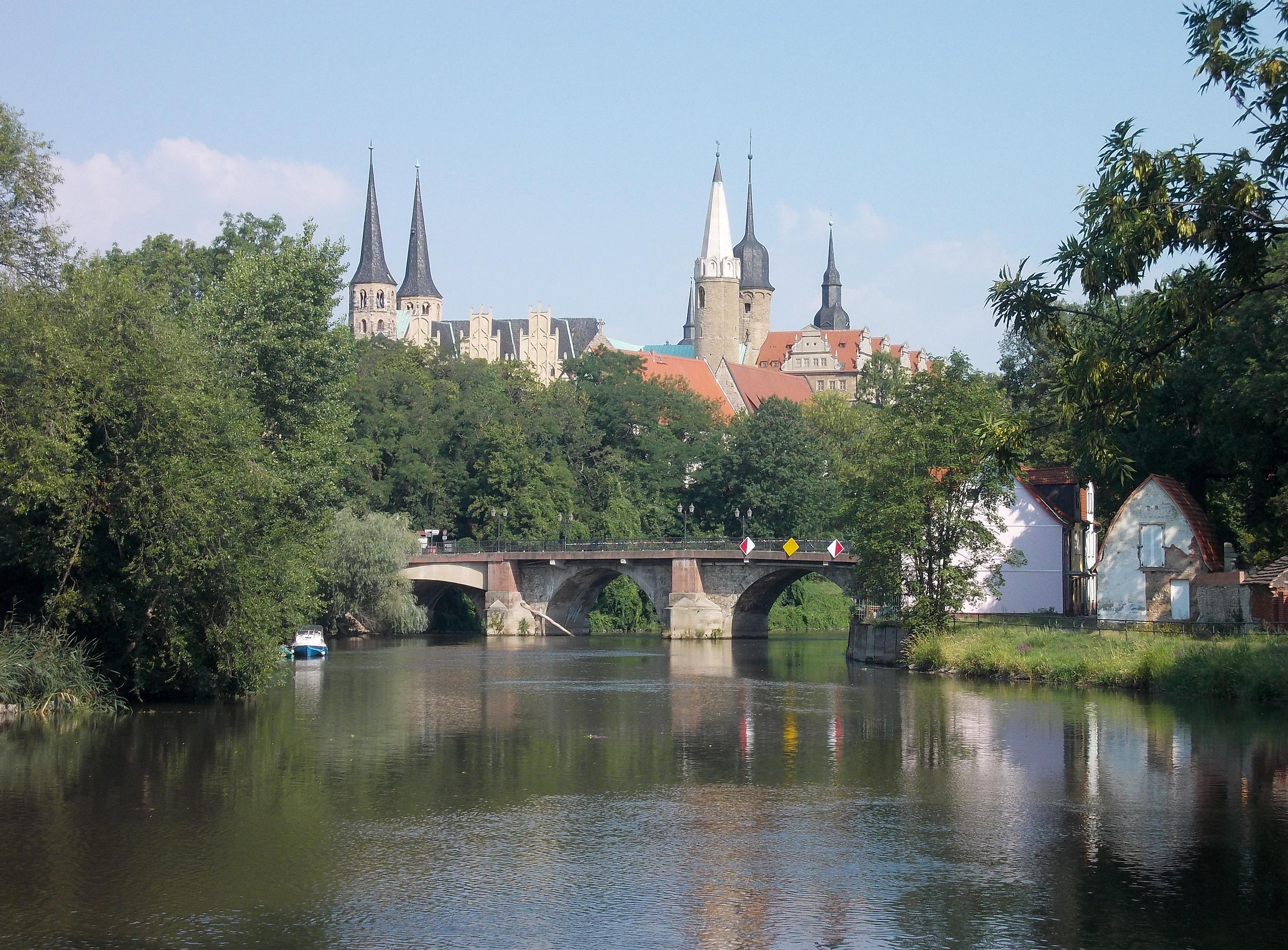 Saale river in Merseburg (district: Saalekreis, Saxony-Anhalt) with Neumarkt Bridge, cathedral and castle